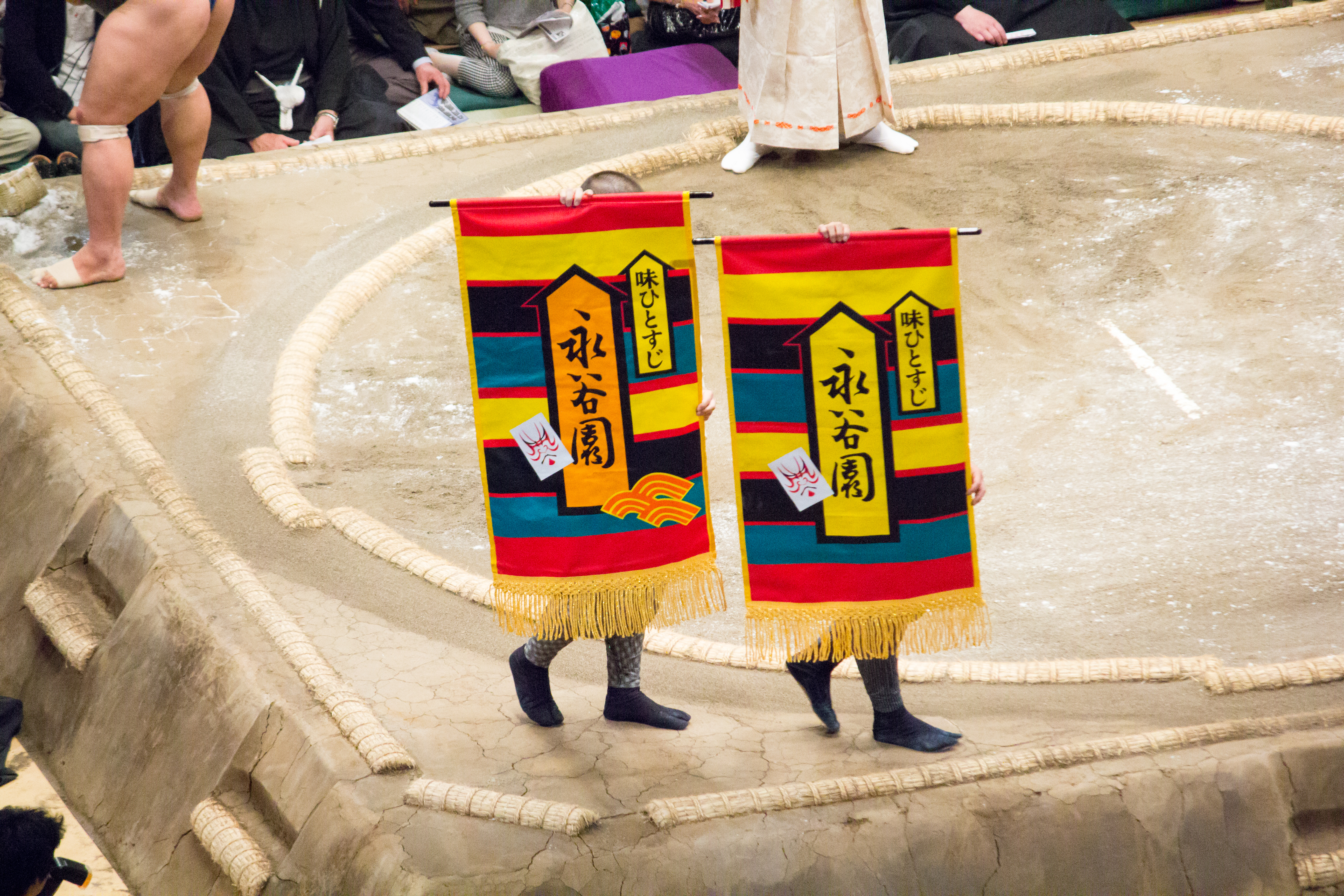 Yobidashi of the Japan Sumo Association carrying sponsor banners before a bout at the 2014 May Grand Sumo Tournament in Tokyko, Japan. Canon EOS 60D + EF-S 55-250mm F4-5.6 IS